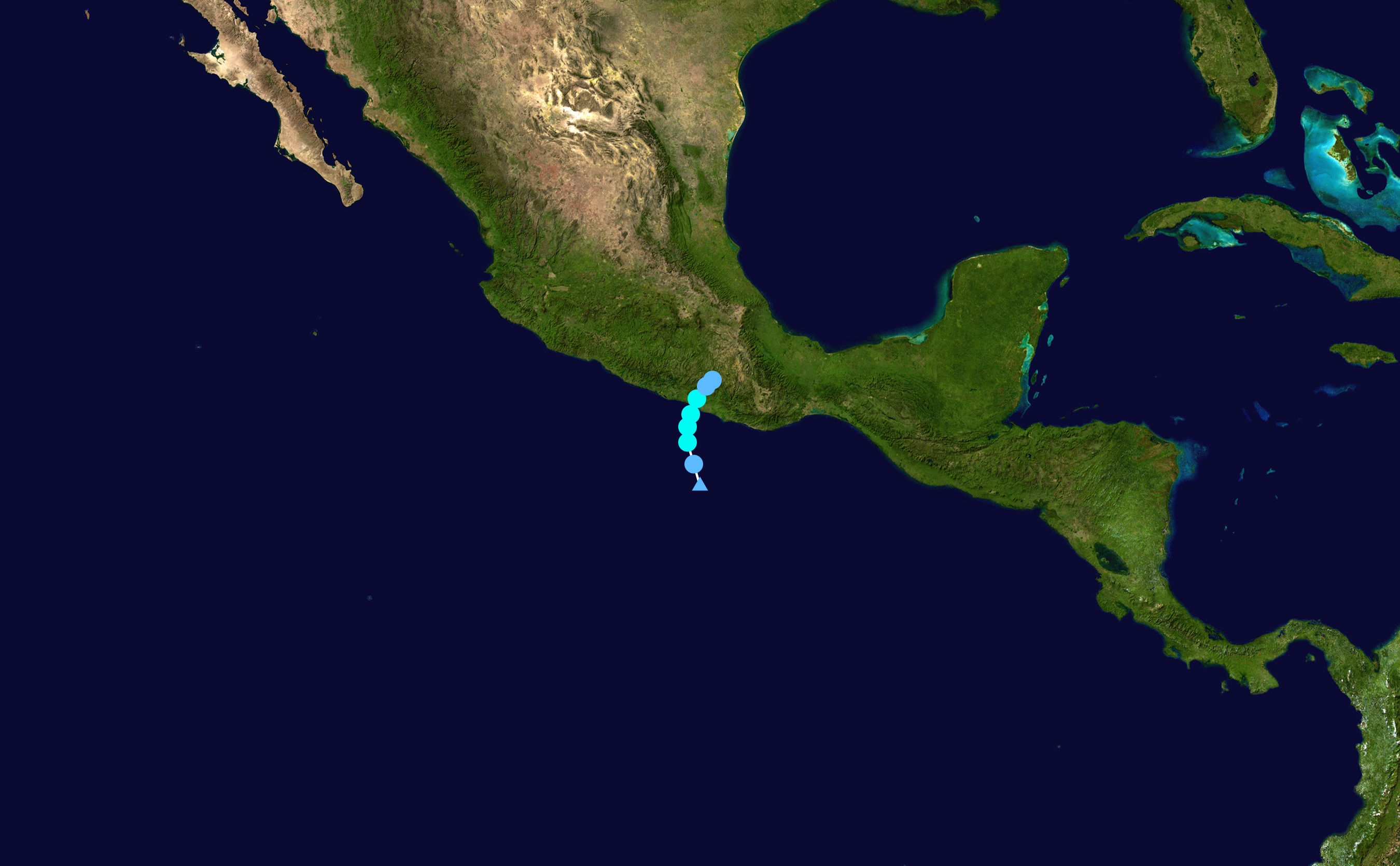 Track map of Tropical Storm Trudy of the 2014 Pacific hurricane season. The points show the location of the storm at 6-hour intervals. The colour represents the storm's maximum sustained wind speeds as classified in the Saffir–Simpson scale (see below), and the shape of the data points represent the nature of the storm, according to the legend below. Saffir–Simpson scale Tropical depression≤38 mph≤62 km/h Category 3111–129 mph178–208 km/h Tropical storm39–73 mph63–118 km/h Category 4130–156 mph209–251 km/h Category 174–95 mph119–153 km/h Category 5≥157 mph≥252 km/h Category 296–110 mph154–177 km/h Unknown Storm type Tropical cyclone Subtropical cyclone Extratropical cyclone / Remnant low / Tropical disturbance / Monsoon depression